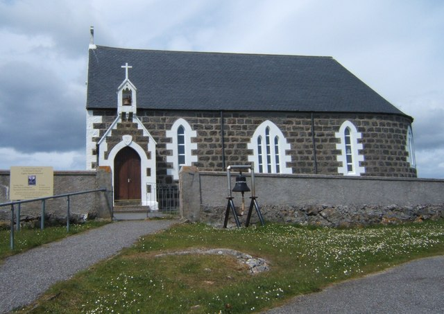 The Church of St Michael's of the Sea. The Roman Catholic Church at Haun was opened in 1903. The bell at the gate was recovered from the German battleship "Derfflinger" see 1357173, which sunk at Scapa Flow. The altar of the church is the bow of a lifeboat from HMS Hermes 1357183. See also 1357198 and 1357187.